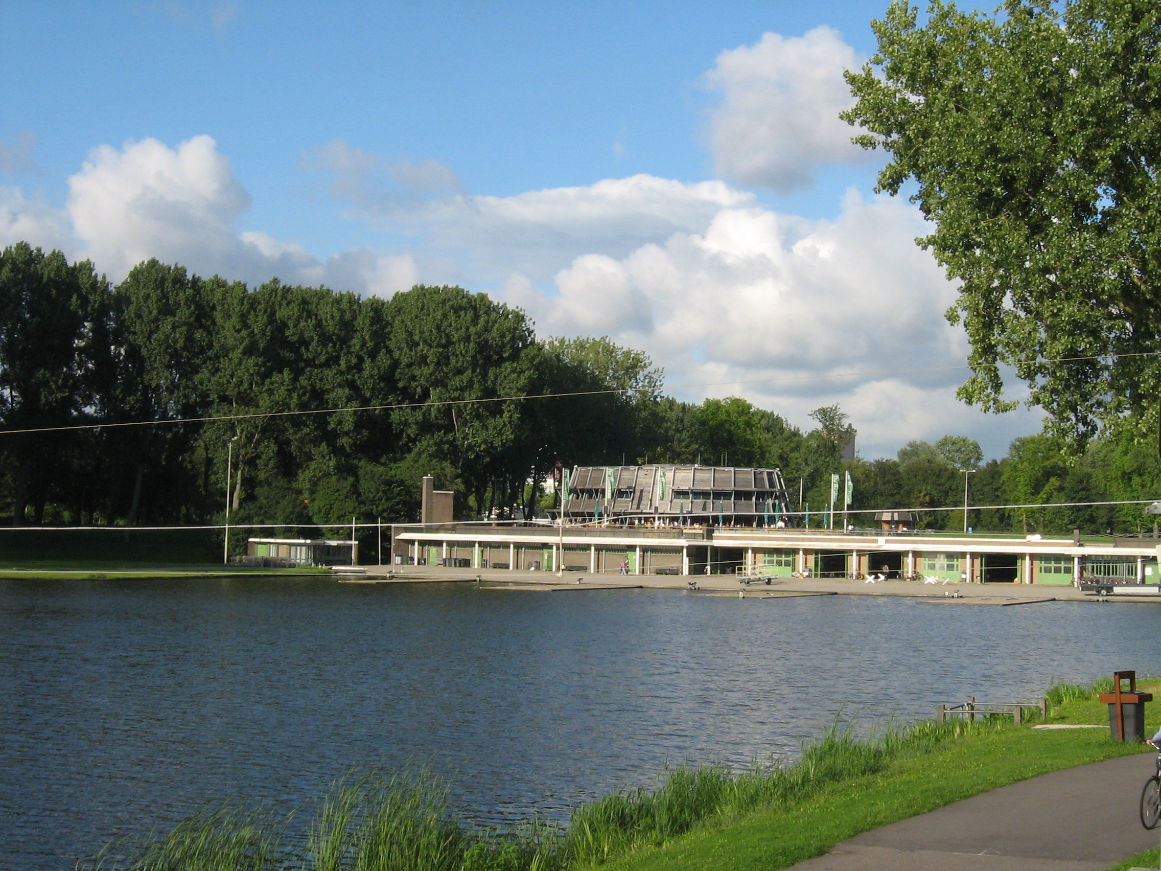 Boathouse on the eastern side of the Bosbaan rowing lake in the Amsterdamse Bos in Amstelveen, the Netherlands.